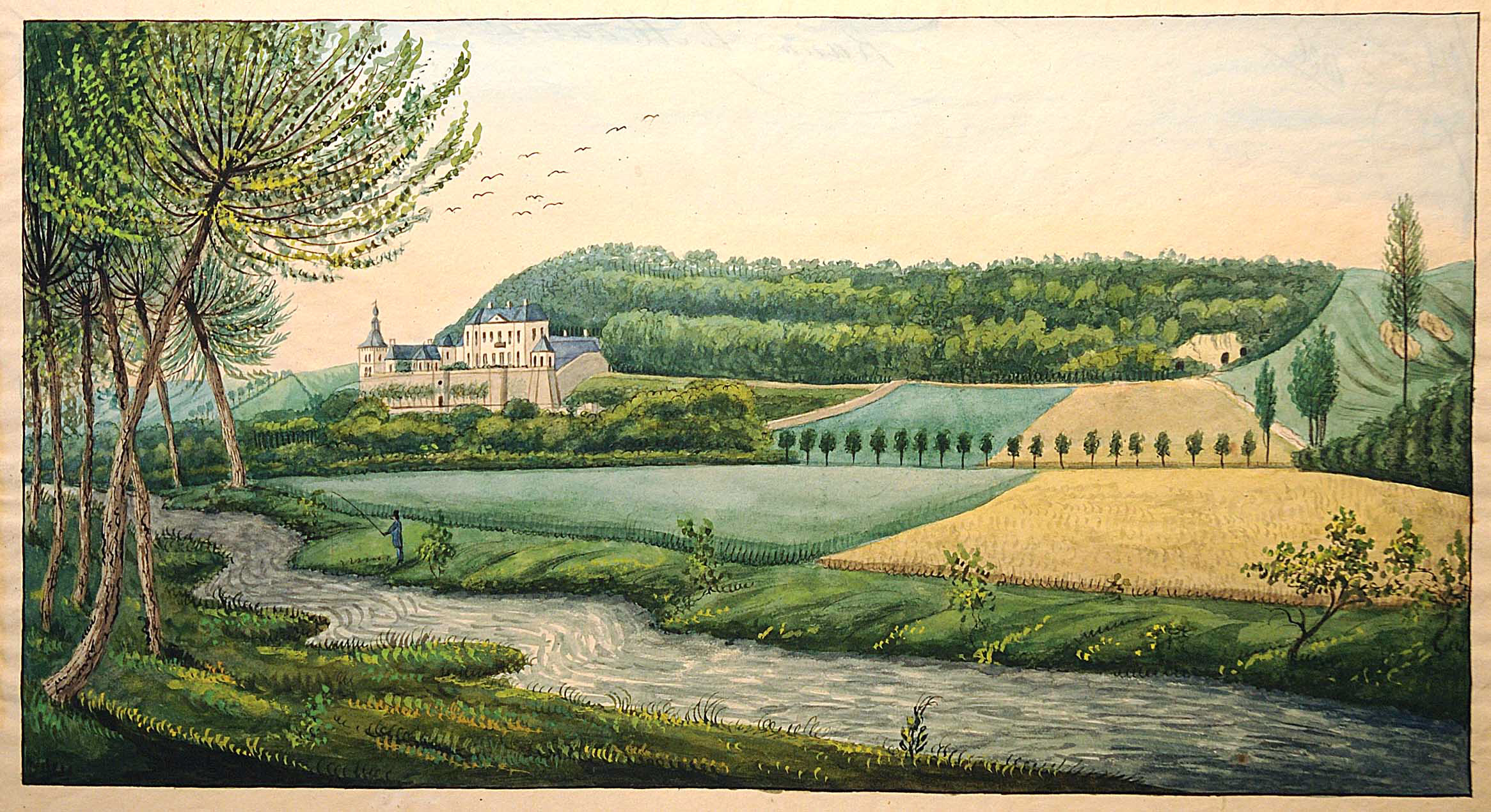 View of the Jeker valley and the Louwberg hill. To the left Château Neercanne. Coloured drawing by Philippe van Gulpen, 1836. Inv.nr. CVDN 353, RHCL Maastricht.